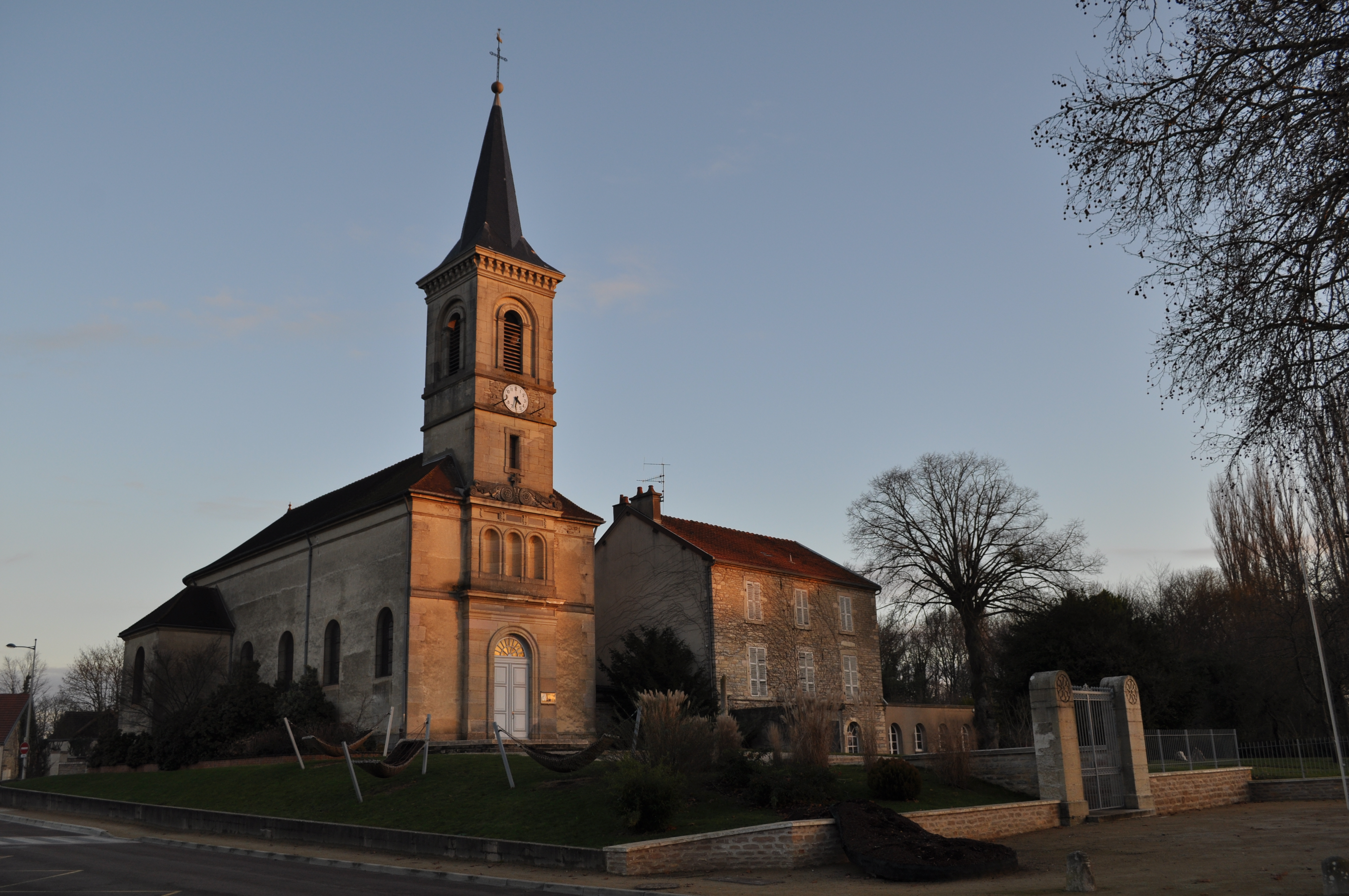 Church of Quetigny, Côte-d'Or